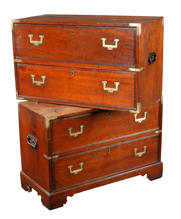 An early 19th Century Anglo Indian Campaign Chest (chest of drawers, chest-on-chest).